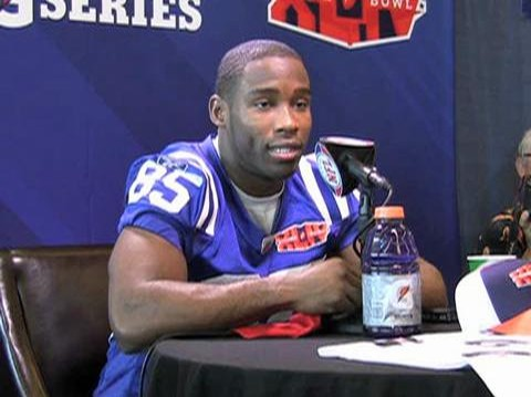 Colts receiver Pierre Garçon